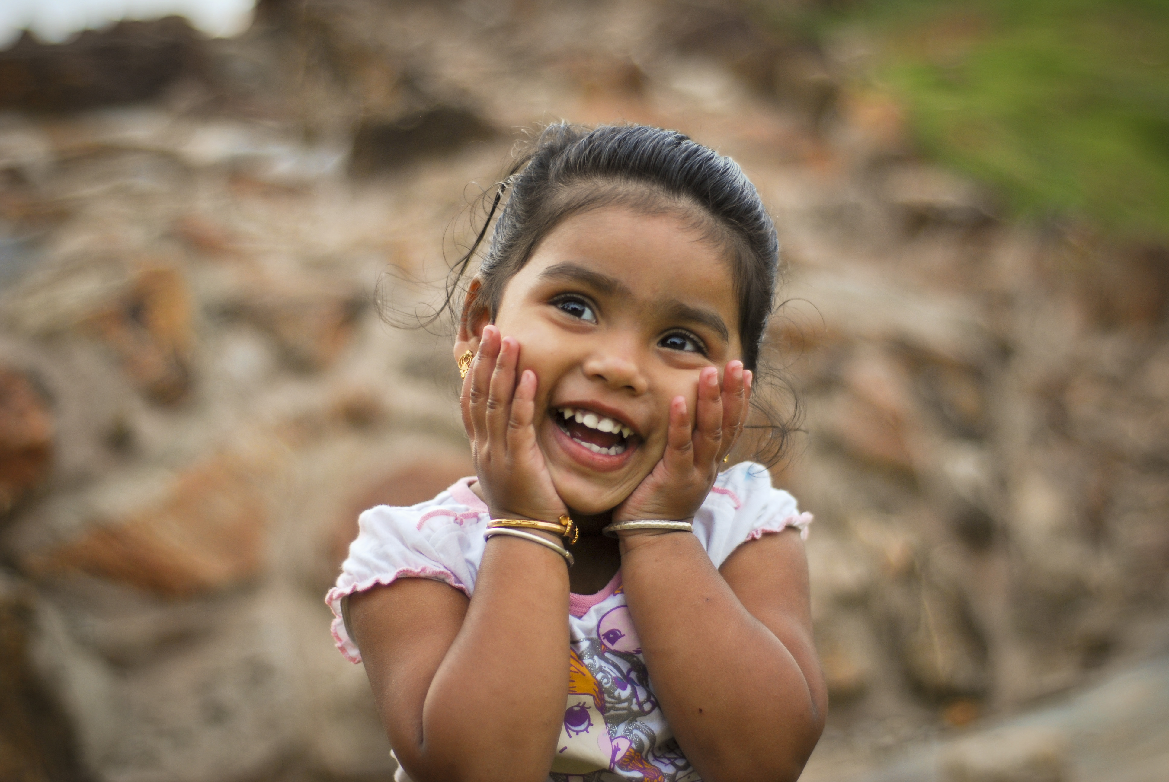 A 2 year old girl in India Children in India